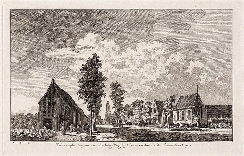 View of the Hogeweg near Amersfoort. Tobacco barn at the left and church at the right side.